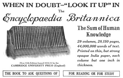 Ad for Encyclopædia Britannica (11th edition, 1911) published May 1913 in National Geographic.